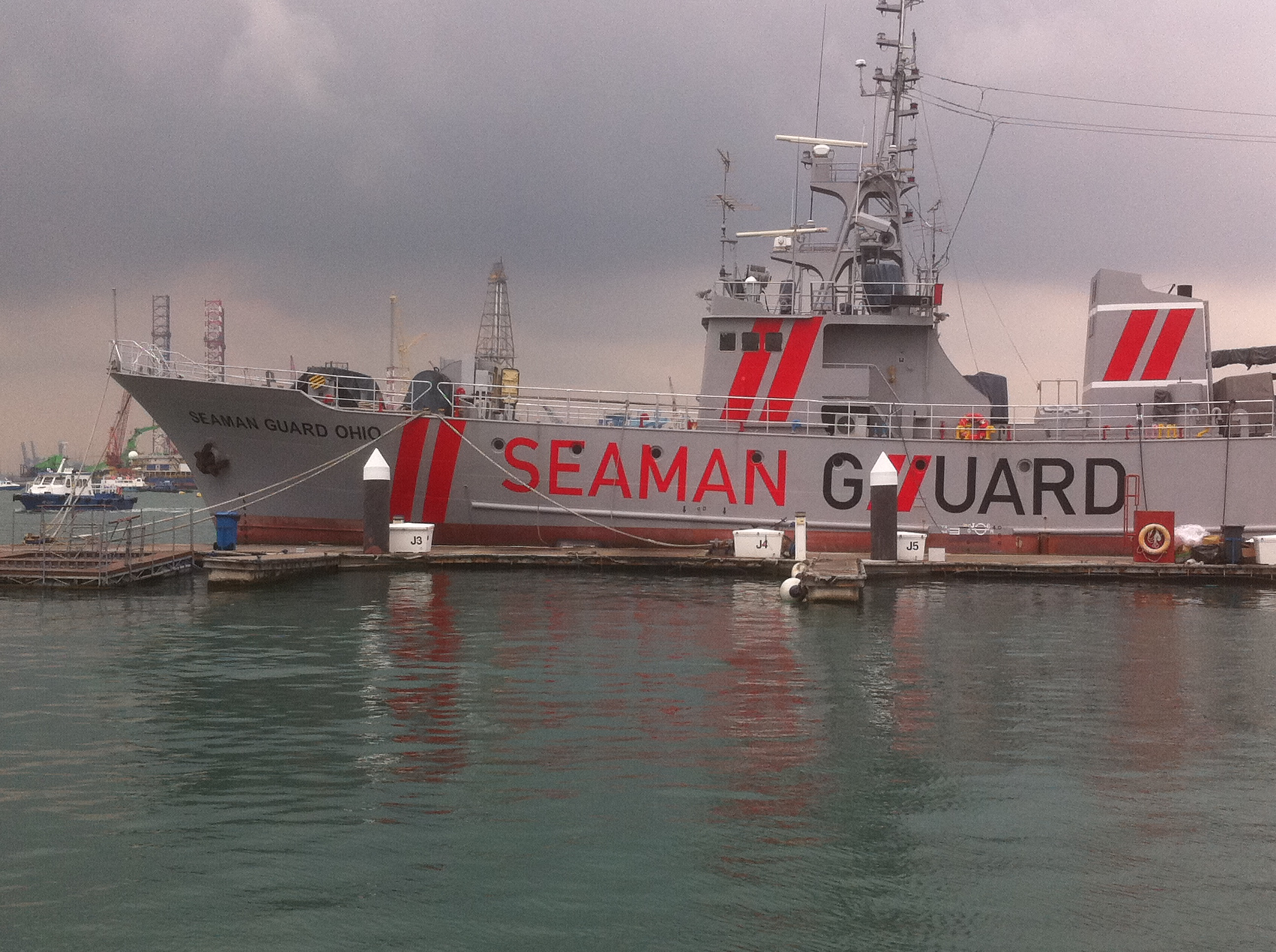 Maritime security provider